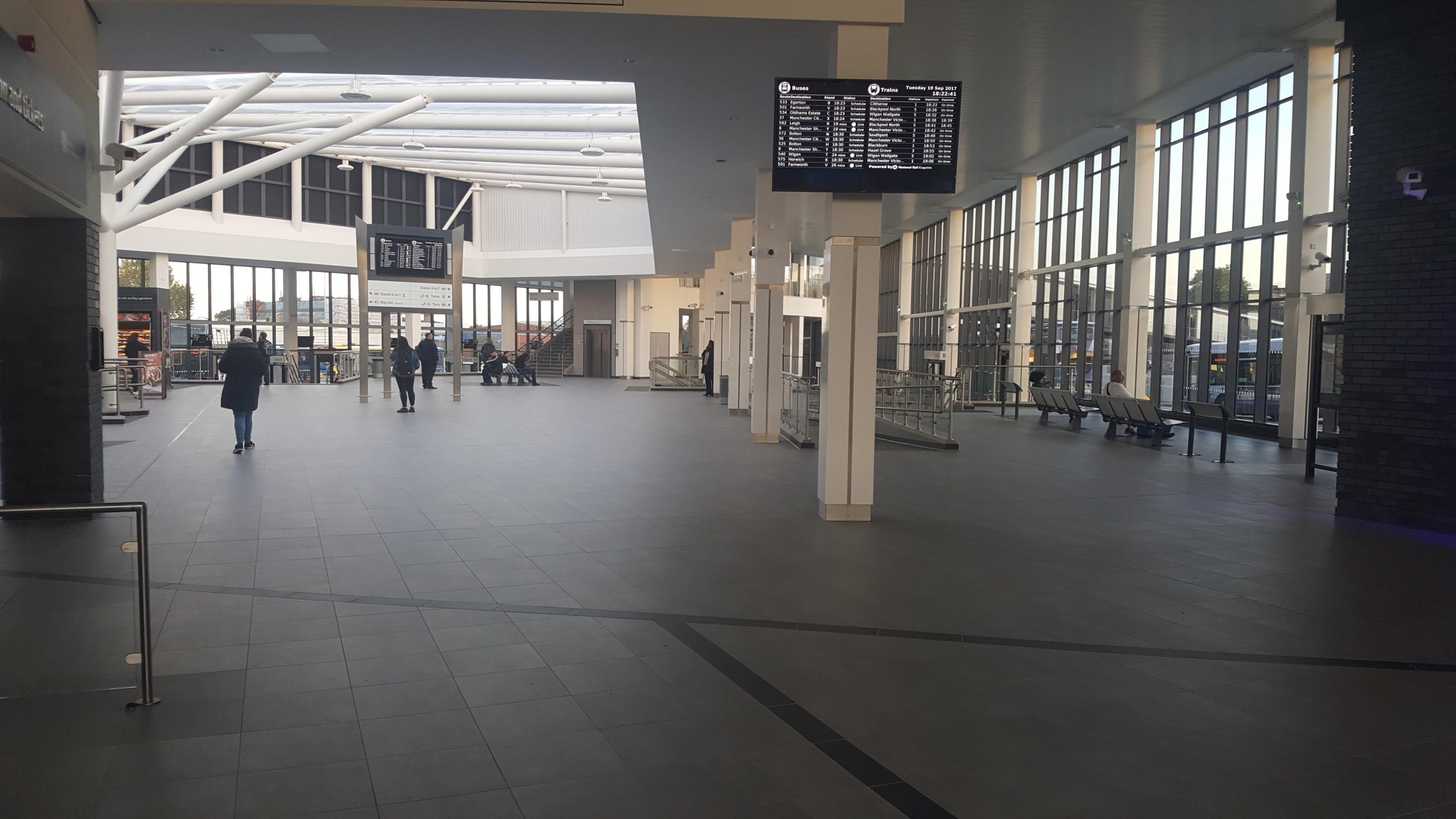 Interior